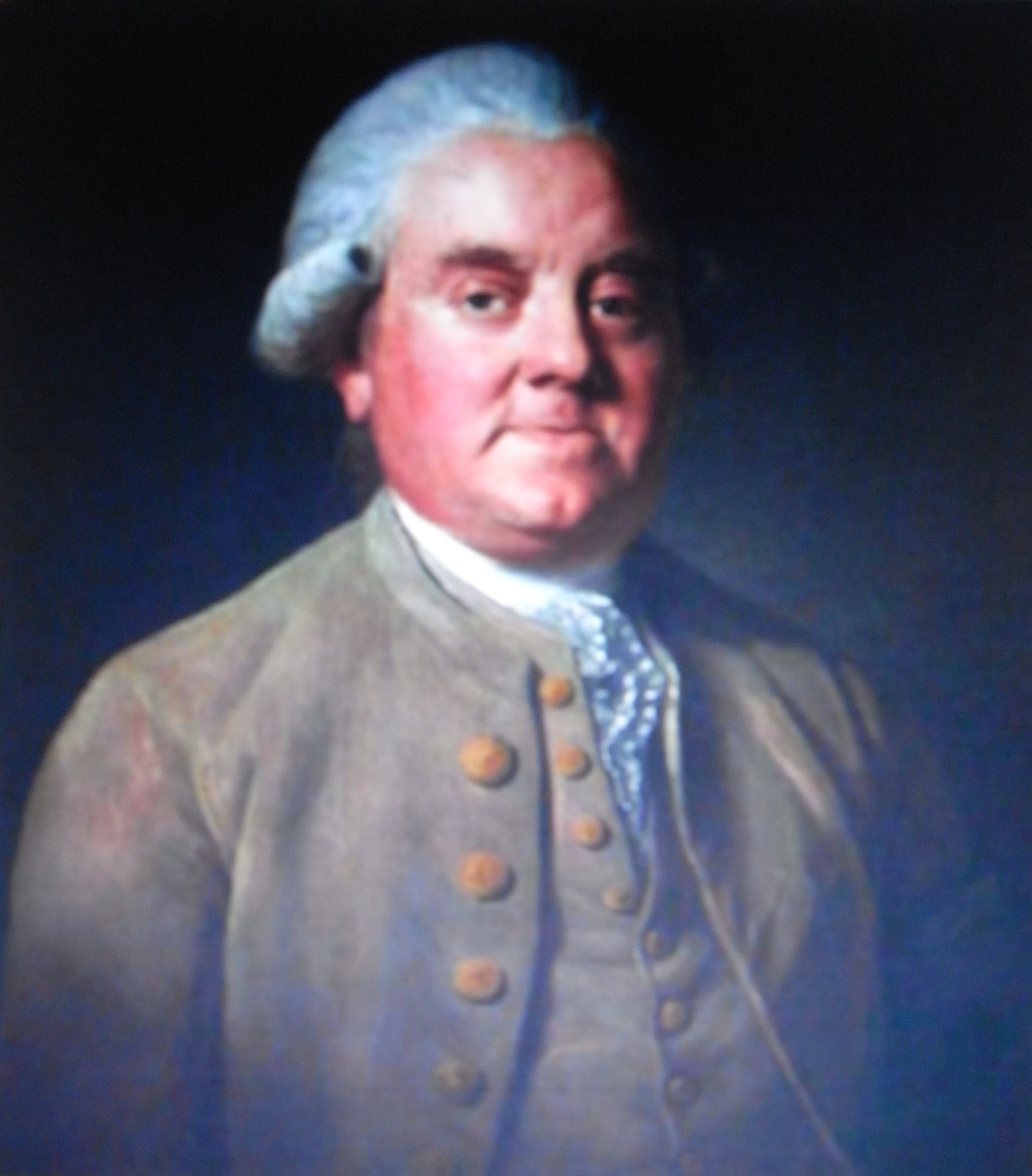 Sir Sir Robert Palk, 1st Baronet (1717-1798)of Haldon House, Devon. Portrait circa 1780 by Thomas Beach (1738-1806). Collection of Mr T. Fenton.